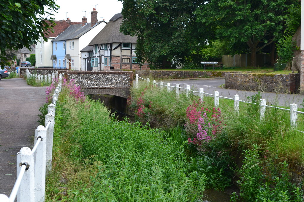 River beside High Street, East Meon